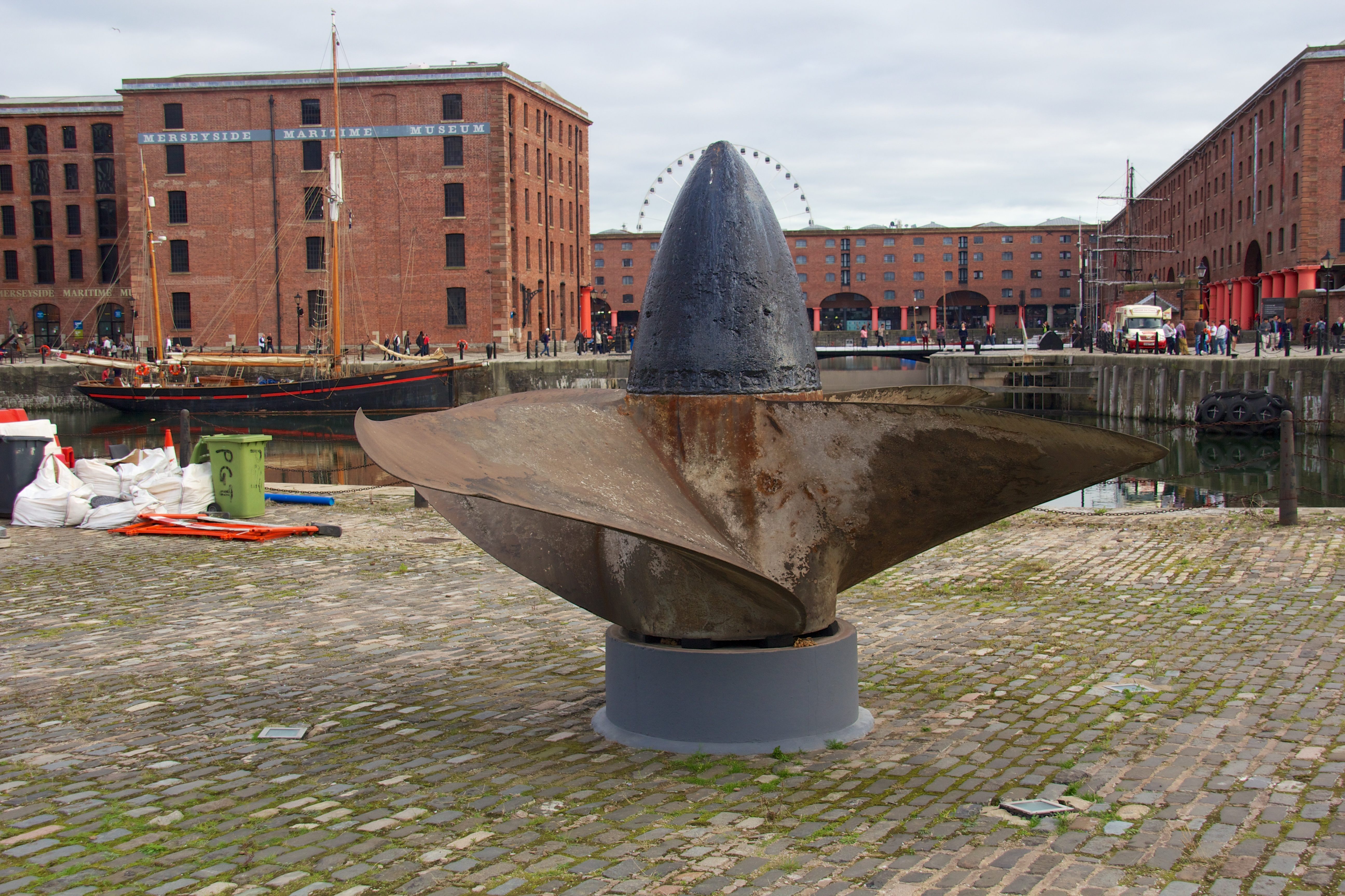 One of the four-bladed propellers installed on the RMS Lusitania in 1909. On display at the Merseyside Maritime Museum in the Liverpool docks.